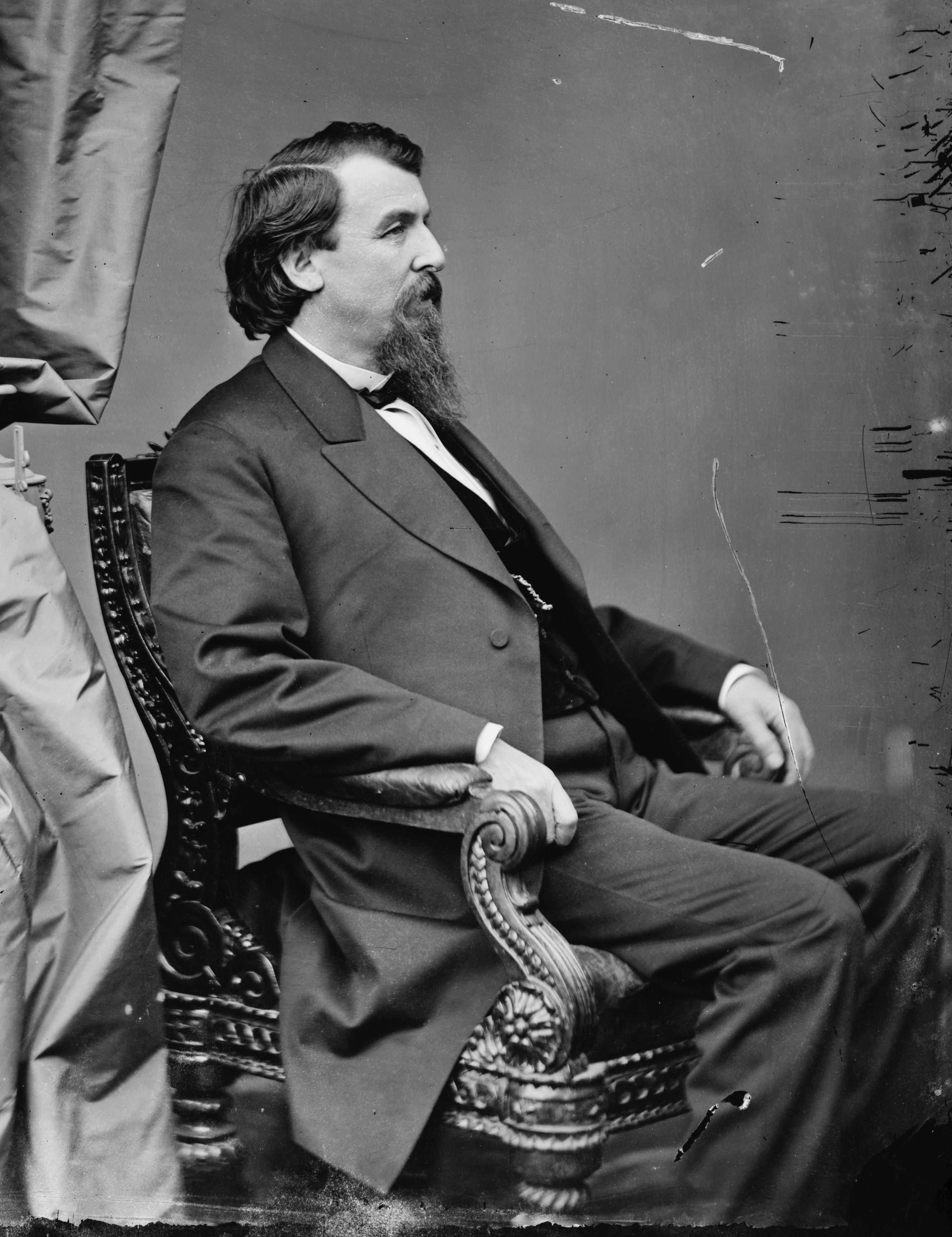 James Cavanaugh. Library of Congress description: "Hon. James Michael Cavanaugh of Minnesota"